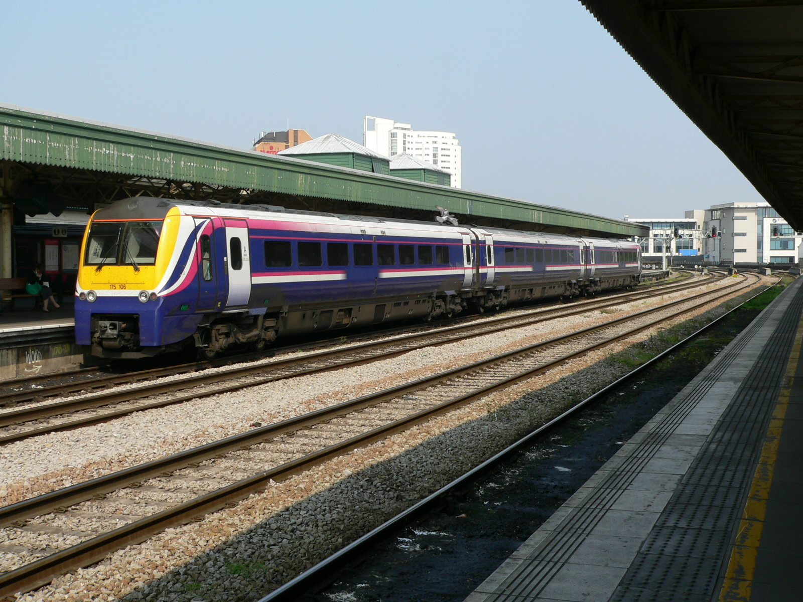 Arriva Trains Wales Class 175 DMU 175108, in unbranded First North Western livery, at platform 2 of Cardiff Central railway station picks up passengers at the start of a journey, presumably to North Wales.